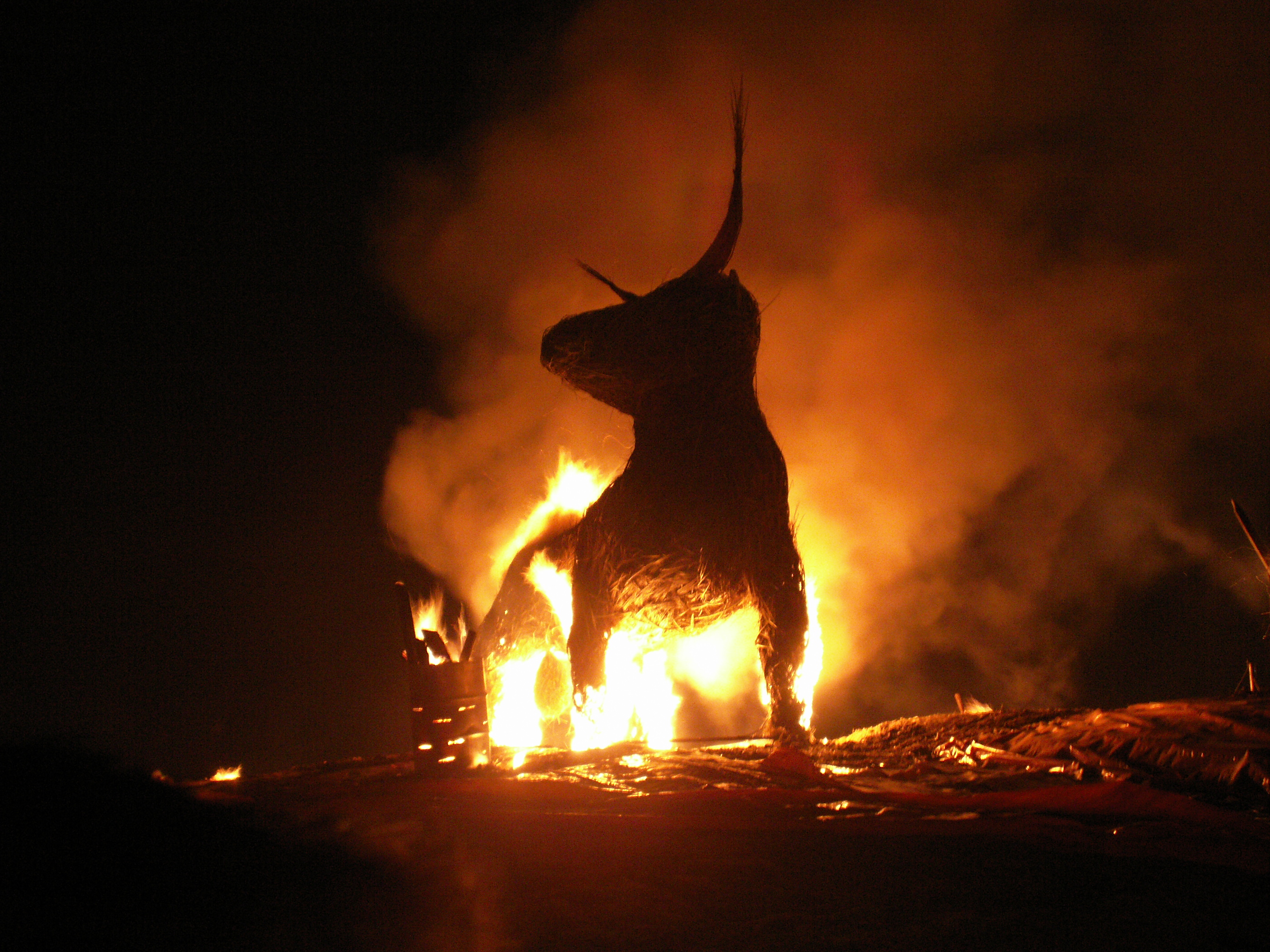 Edinburgh Hogmanay – The bull, well engulfed in flames. It had a steel frame to it, and the head tilted down onto the back of the beast (we were a little worried initially that it would come rolling downhill). Photography was hampered by the fact that I was in a huge crowd (~15,000 torches were sold for the procession) who were alternately stamping their feet to keep warm and jostling forward for a better position on the grassy/muddy hillside. Not good conditions for hand-held long exposures. The object in the lower left is the guy next to me's shoulder, unfortunately. A tighter crop up at 100798178.